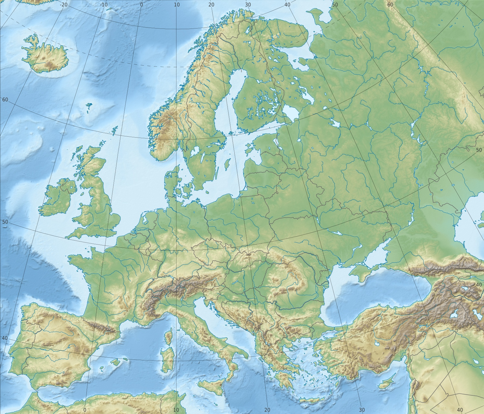 Physical location map Europe; Lambert azimuthal equal-area projection Projection: LAEA Europe, EPSG:3035 Longitude of projection center: 10° E Latitude of projection center: 52° N Map extent (LAEA Europe) Xmin,Ymin to Xmax, Ymax: 2555000, 1350000 to 7405000, 5500000 Map extent (WGS84) (lon,lat of lower left and upper right corner): -8.9067, 33.2307 to 72.9617, 58.9174